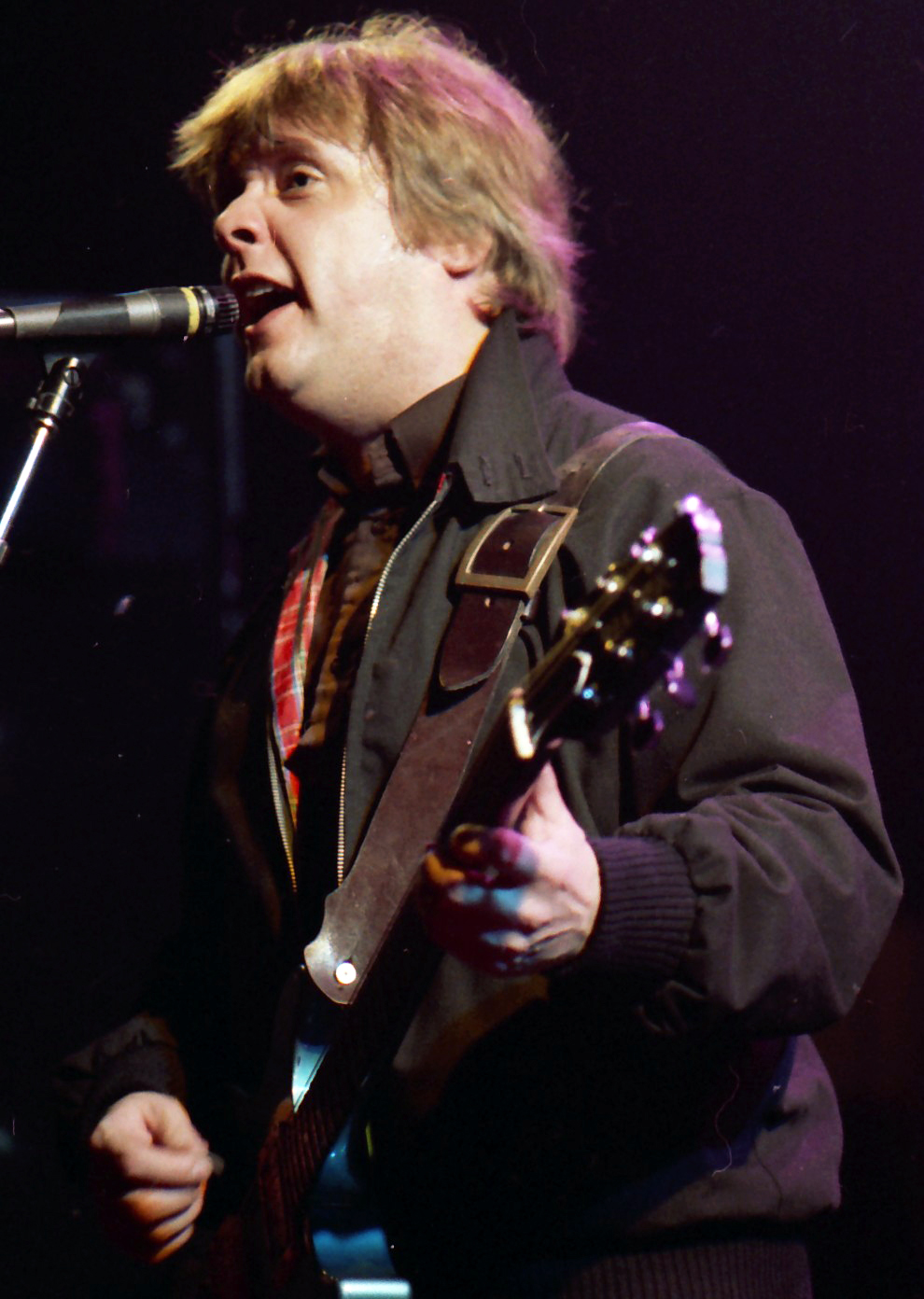 Billy Bremner (musician) performs with band Rockpile at Danforth Music Hall, Toronto.